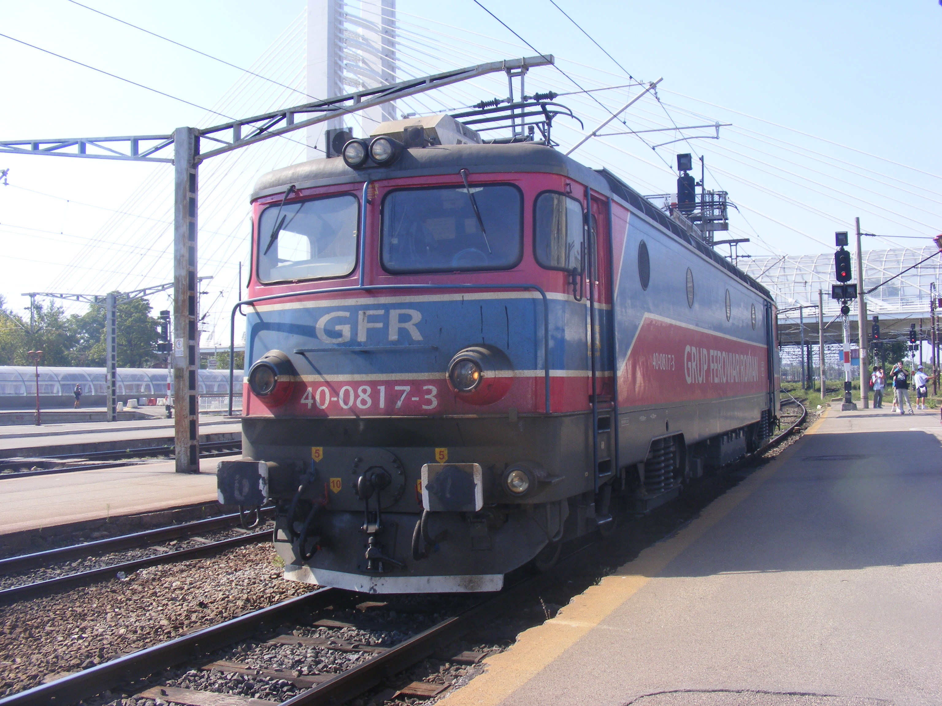 GFR 40-0817-3 in Gara de Nord